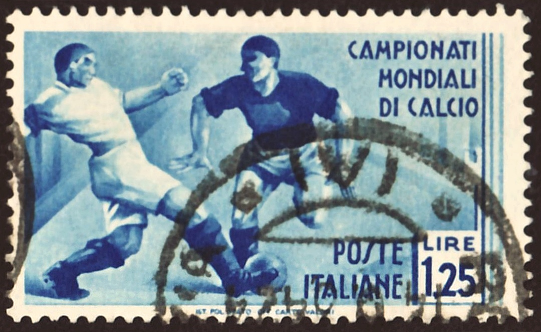 Stamp of the Kingdom of Italy; 1934; commemorative stamp of the issue to the Football World Cup 1934; drawing of two football players with ball; postmarked in 1934 This, and any other stamps of that series, are the first stamps of Italy designed by a woman. Stamp: Michel: No. 482; Yvert et Tellier: No. 342; Scott: No. 327 Color: azure to blue Watermark: Italy No. 1 (crown) Nominal value: 1.25 Lire (₤) Postage validity: from 24 May 1934 until 30 November 1934 Stamp picture size (printed area): 32.0 x 21.0 mm